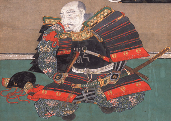 Portrait of Nabeshima Naoshige, Kodenji, kept at Saga Prefectural Museum, Saga, Saga, Japan